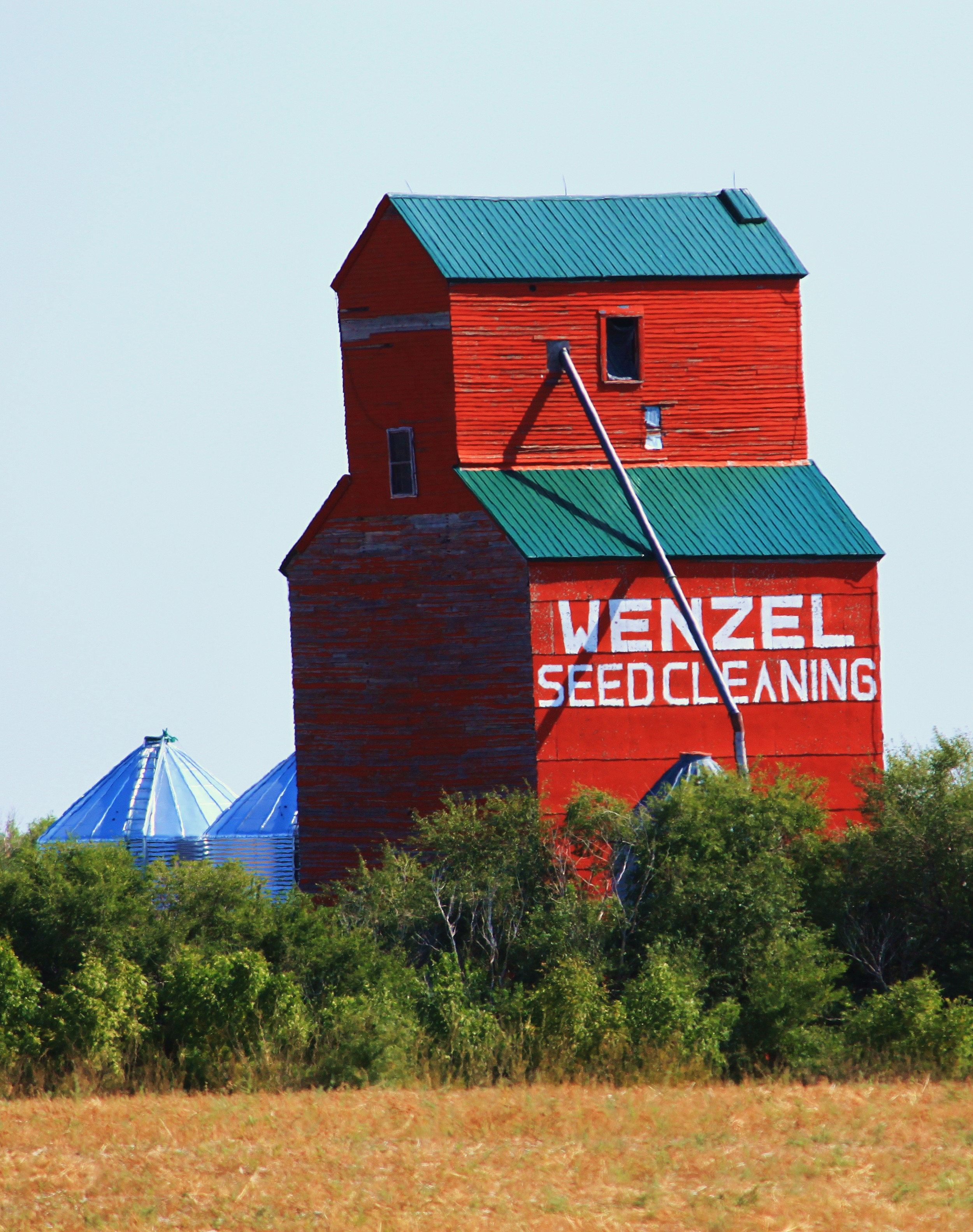 Old grain elevator removed from its original location at Lemsford, Saskatchewan to a farm south of Leader, Saskatchewan, on Highway 21.